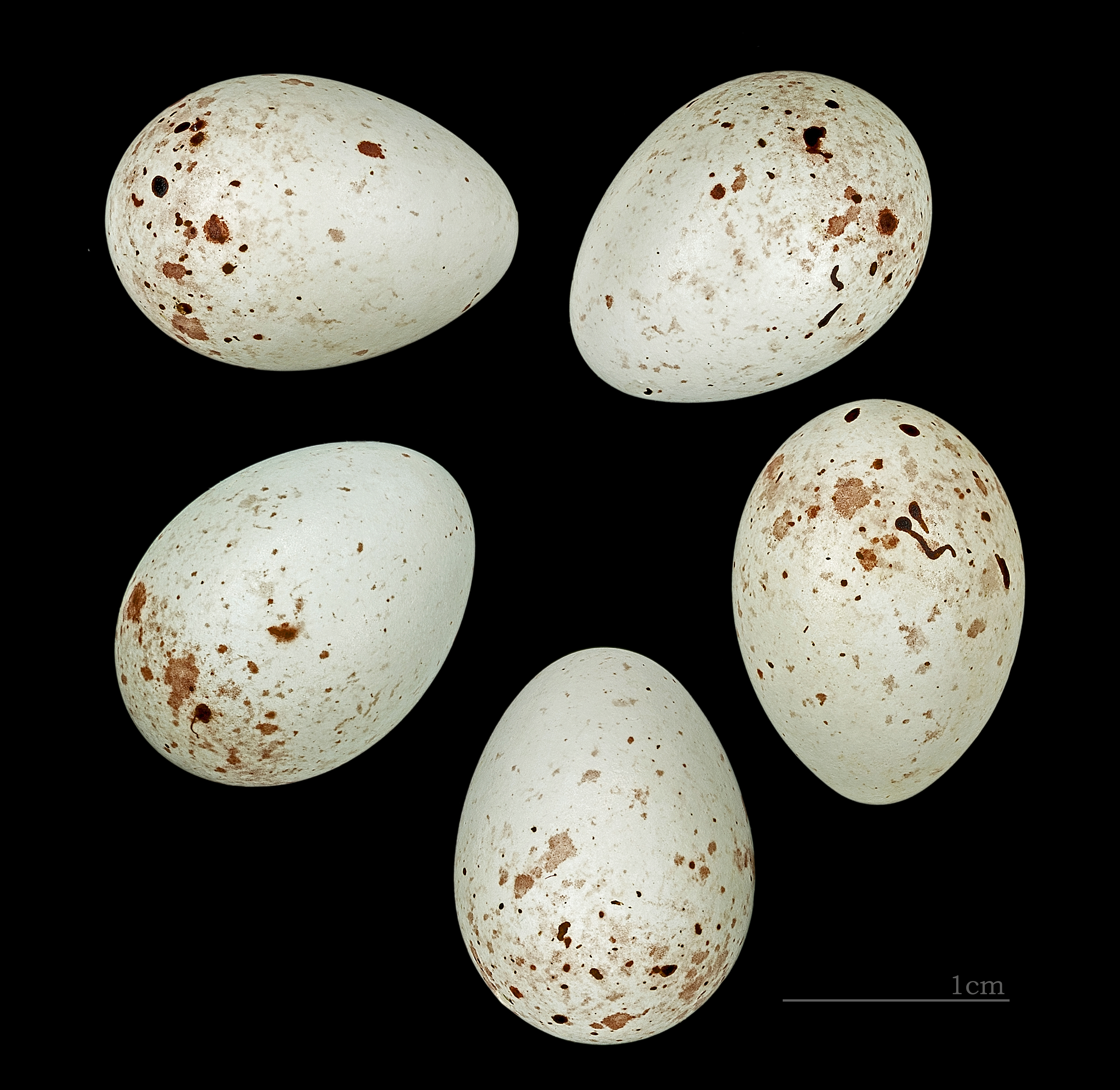 Egg of Common Linnet. Collection of Jacques Perrin de Brichambaut.